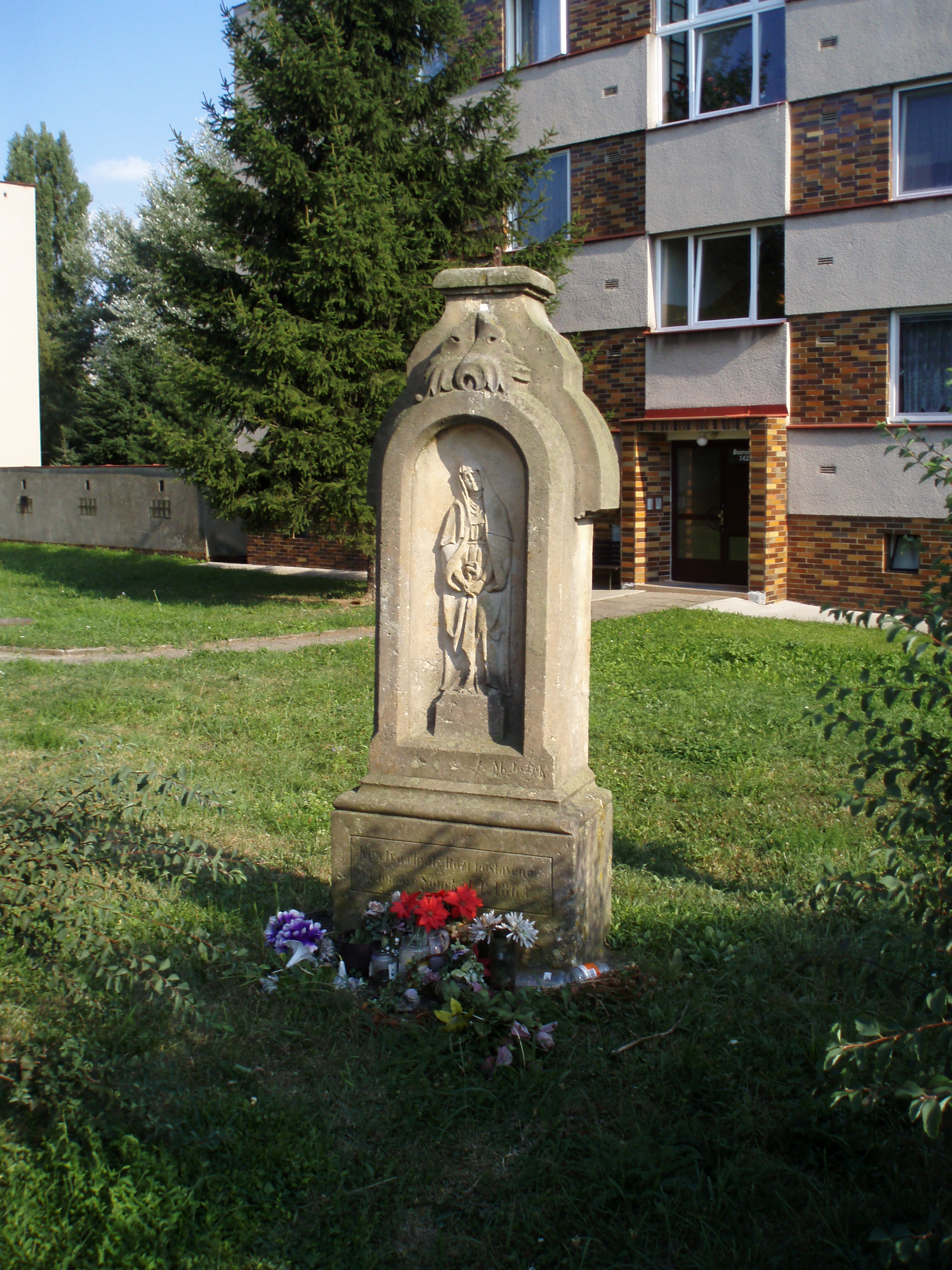 Torso of the stone cross in Farářství (Hradec Králové, Czechia)